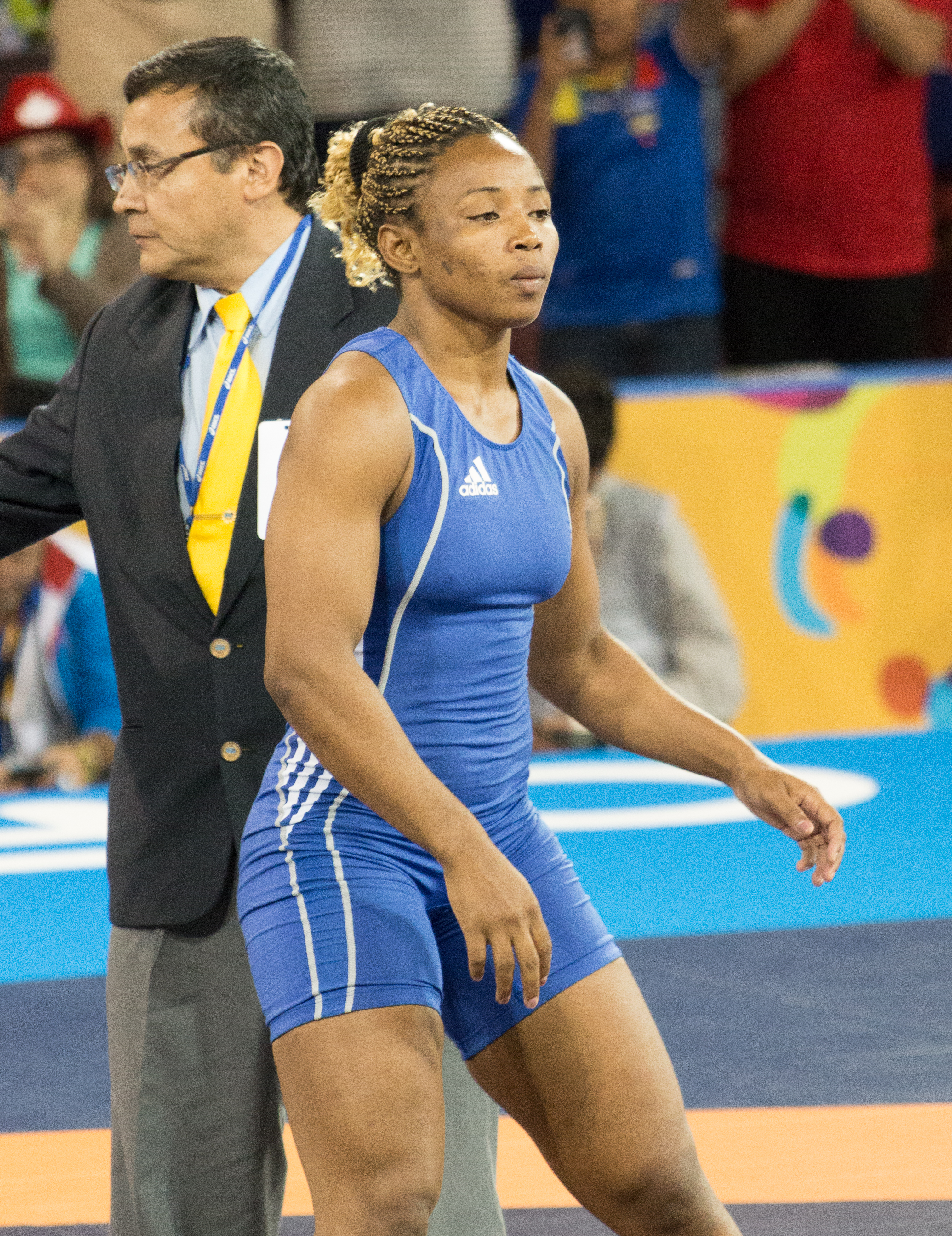 Katerina Vidiau entering the ring prior to her bronze medal match at the Pan Am 2015